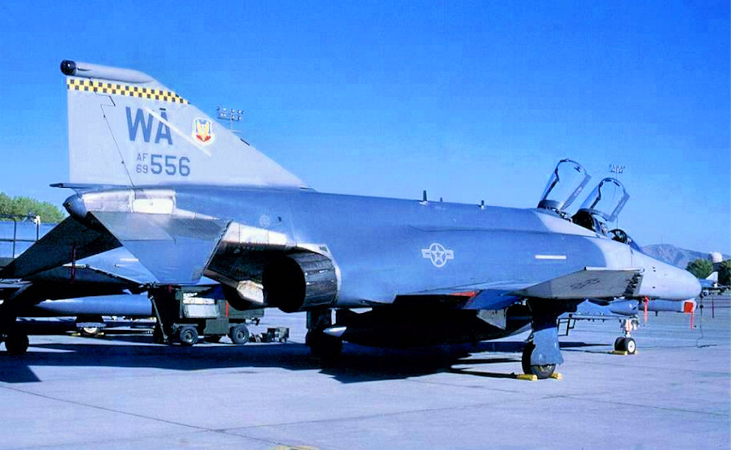 561st Fighter Squadron - McDonnell Douglas F-4E-44-MC Phantom 69-7566 Converted to the F-4G "Wild Weasel" anti-SAM configuration